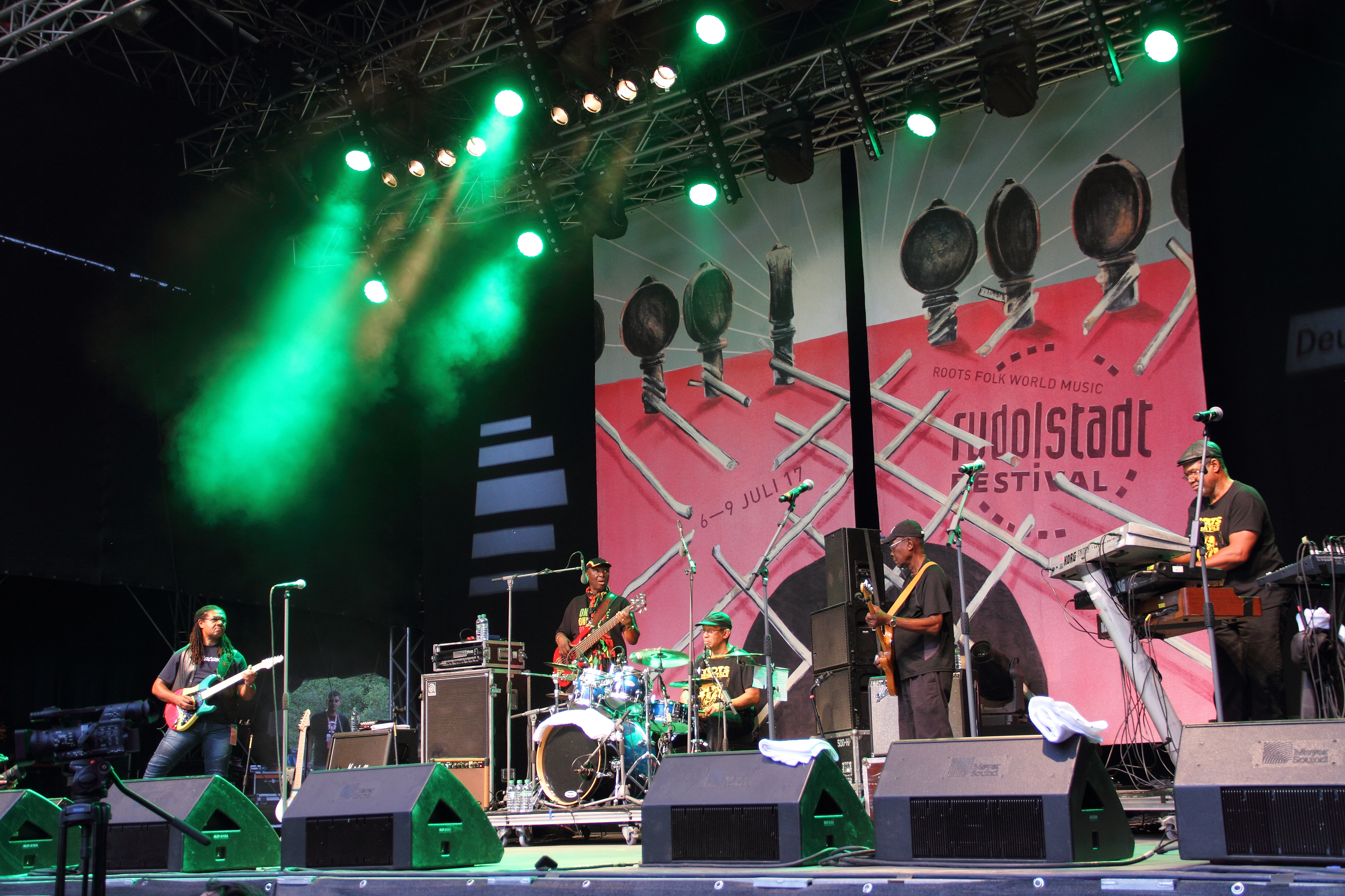 Toots & The Maytals at Rudolstadt-Festival 2017.